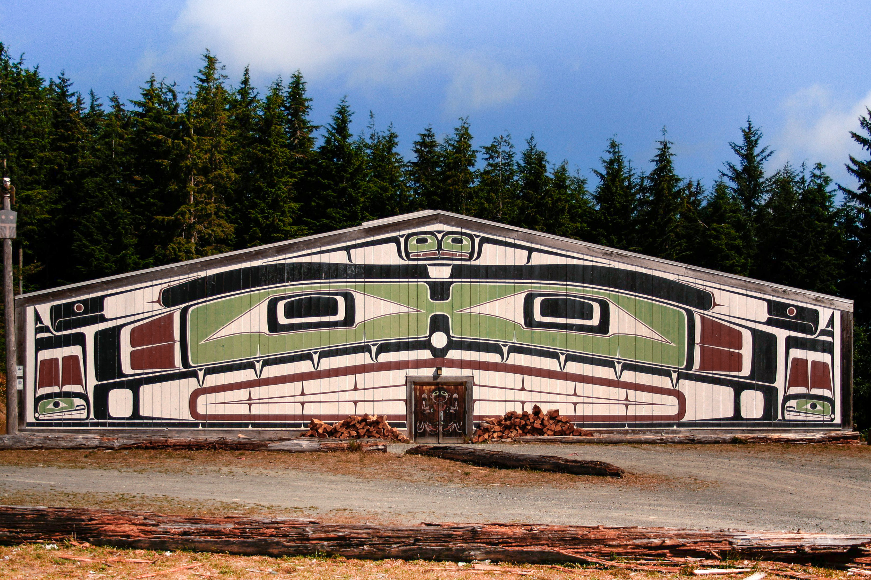 A Kwakwaka'wakw big house near Alert Bay.